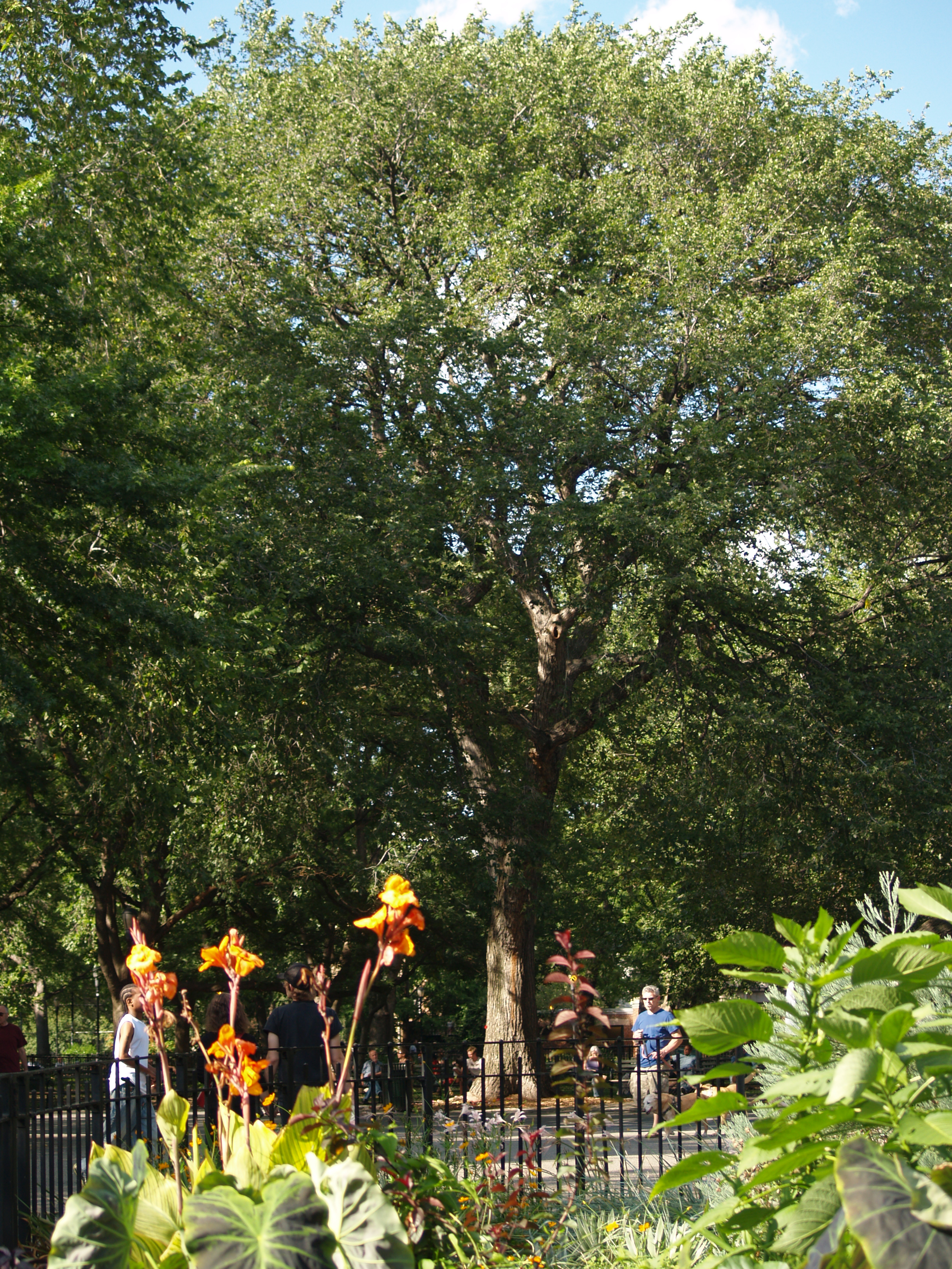 One of Tompkins Square Park's most prominent features is its collection of venerable American Elm (Ulmus americana) trees. One elm in particular, located next to the semi-circular arrangement of benches in the park's center, is important to followers of the Hare Krishna movement. It was beneath this tree, on October 9, 1966, that A.C. Bhaktivedanta Swami Prabhupada, founder of the International Society for Krishna Consciousness, held the first recorded outdoor chanting session of the Hare Krishna mantra outside of the Indian subcontinent; participants in the ceremony included Beat poet Allen Ginsberg. The event is seen as the founding of the Hare Krishna movement in the United States, and the tree is treated by followers as a significant spiritual site.